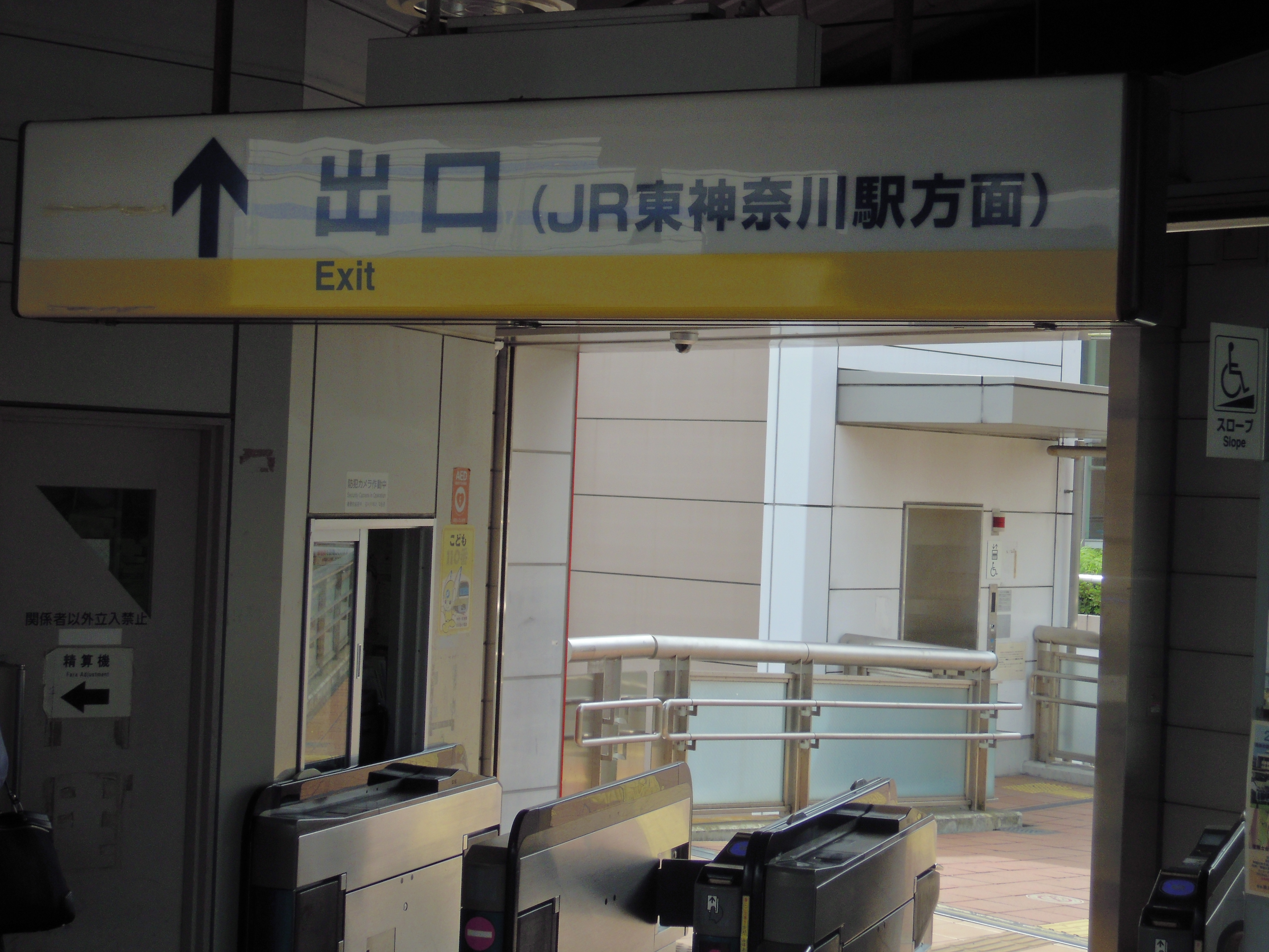 The elevated exit at Nakakido Station